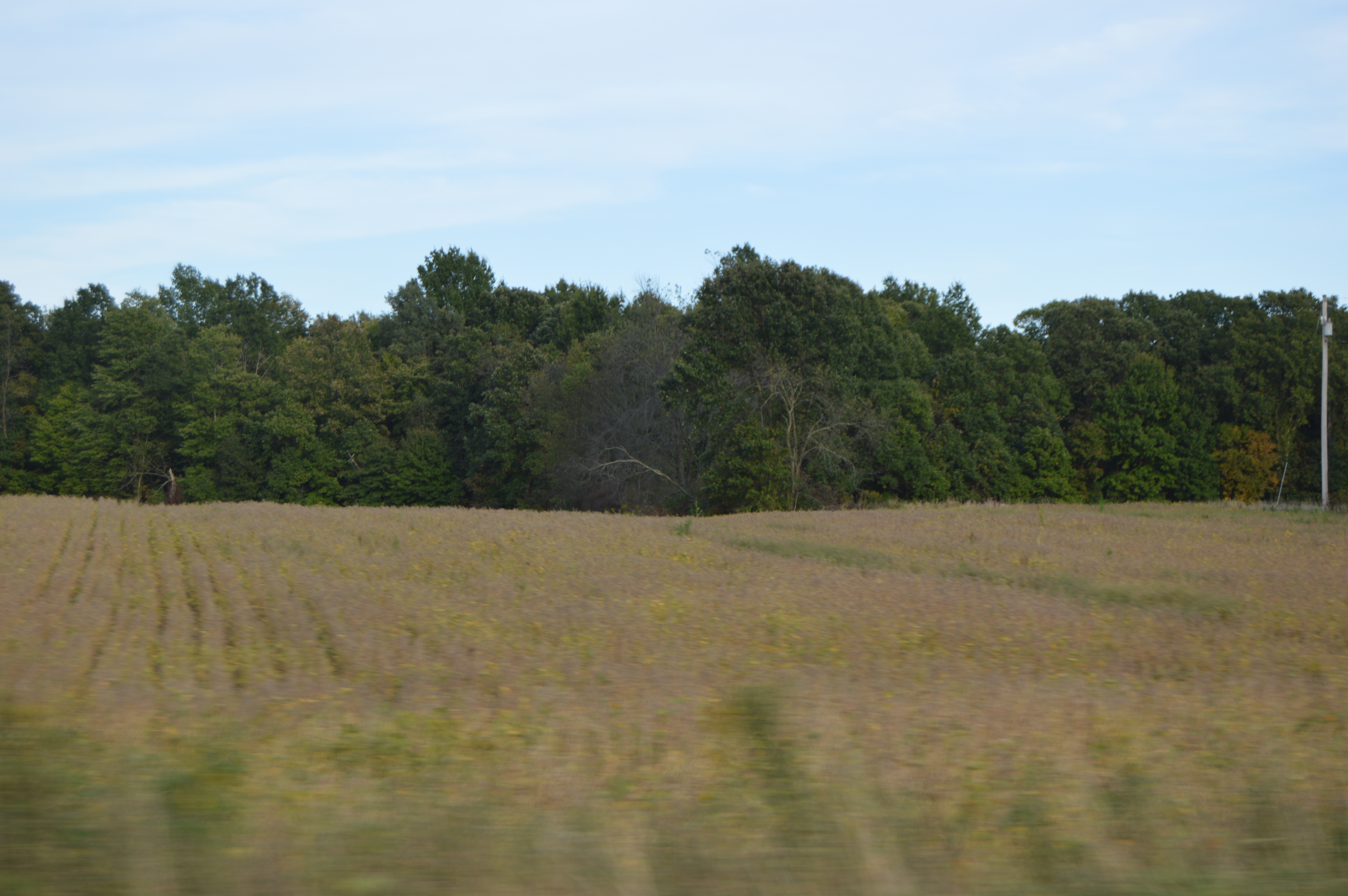 An end-stage soybean field on the eastern side of Pennsylvania Route 173 south of New Lebanon in Mill Creek Township, Mercer County, Pennsylvania, United States.